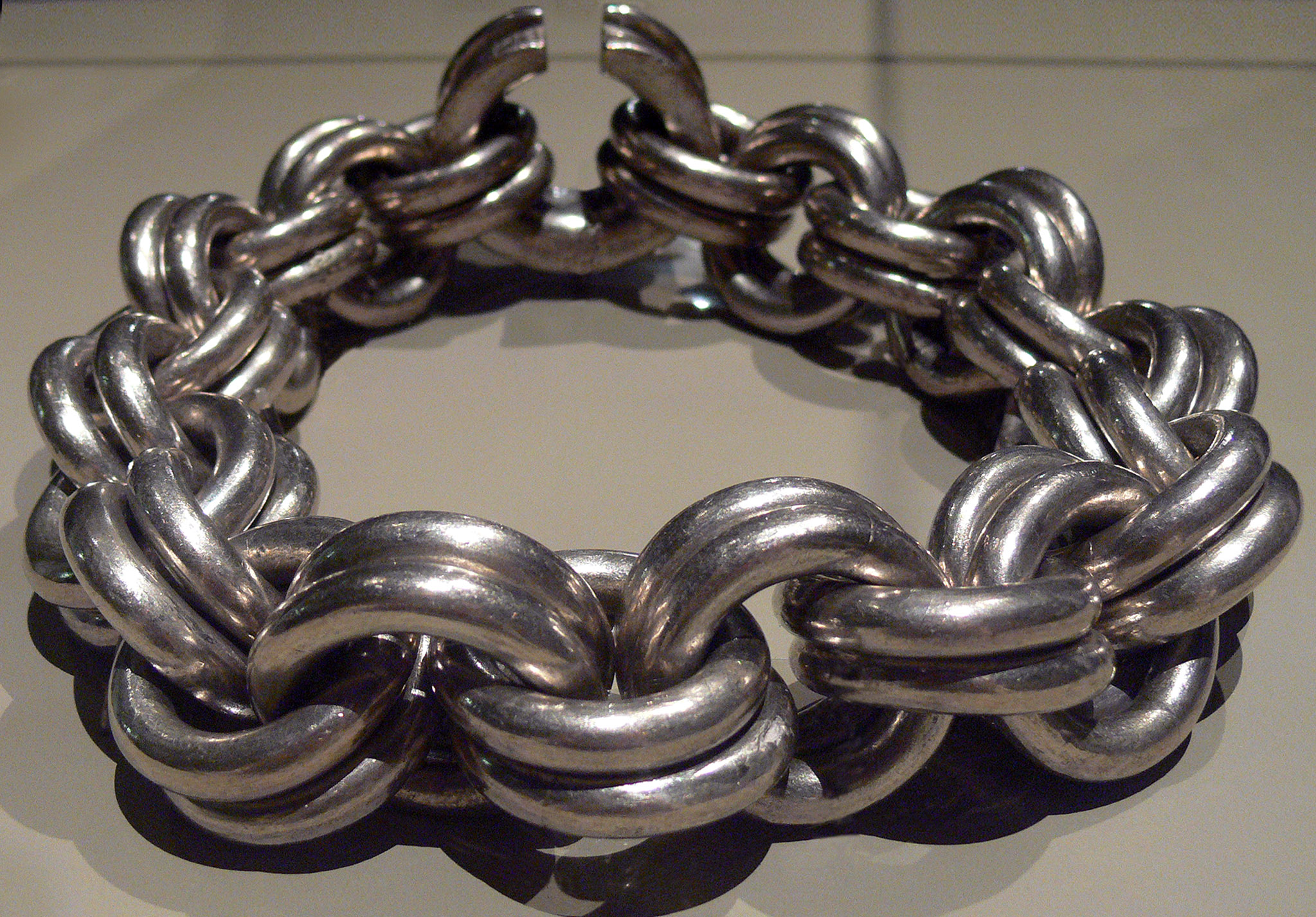 Silver necklace, Pictish. On loan from the National Museum of Scotland. Photographed at the Exhibition: Celts and Scandinavians, artistic encounters, 7th-12th century, 1st October 2008 - January 12, 2009, Musée National du Moyen-Âge - Thermes et hôtel de Cluny (photography allowed in the museum and the exhibition, with a restriction: no flash).